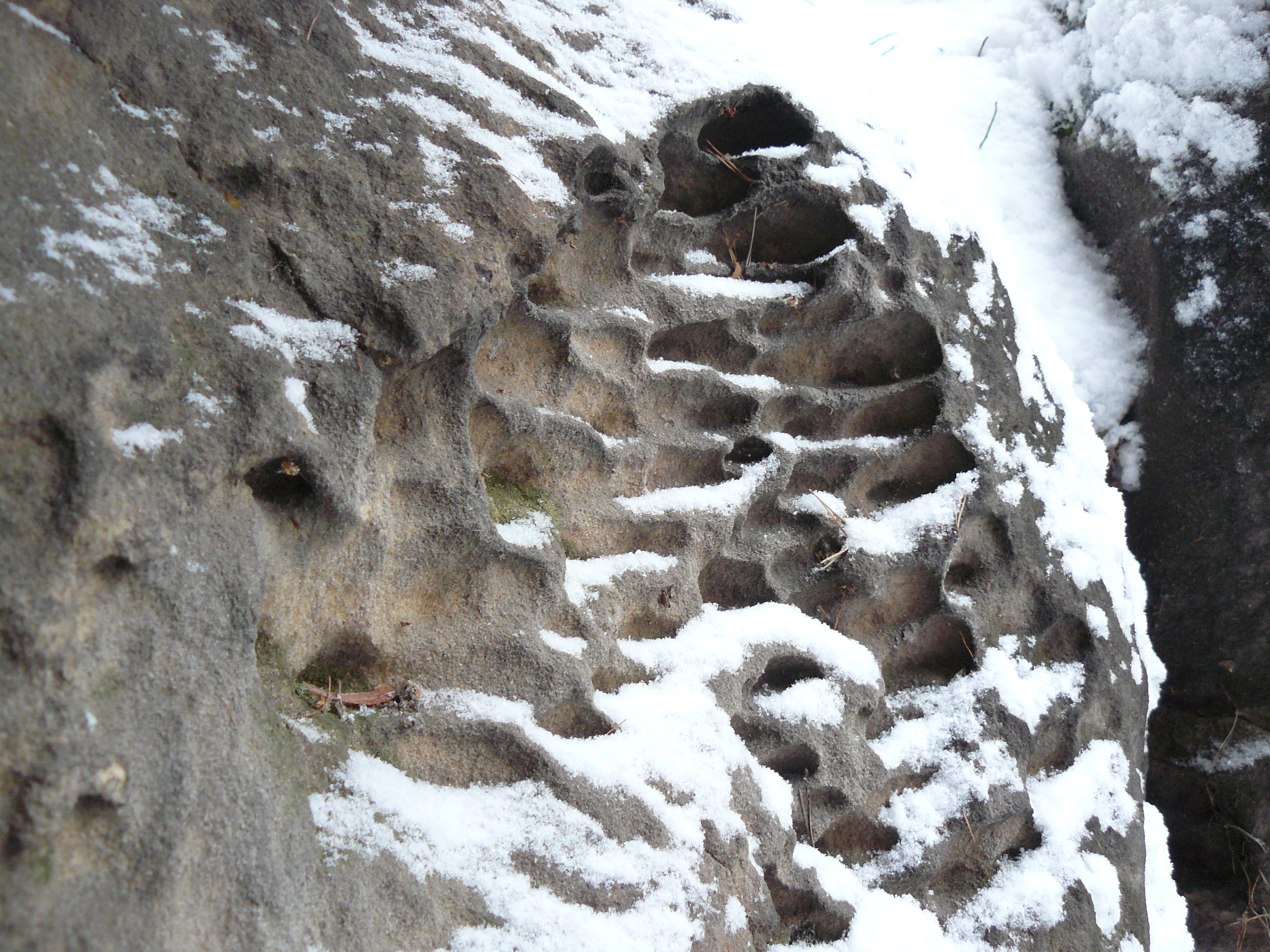 honeycomb Česky: Voštiny ve skalní oblasti Kalich, Český ráj